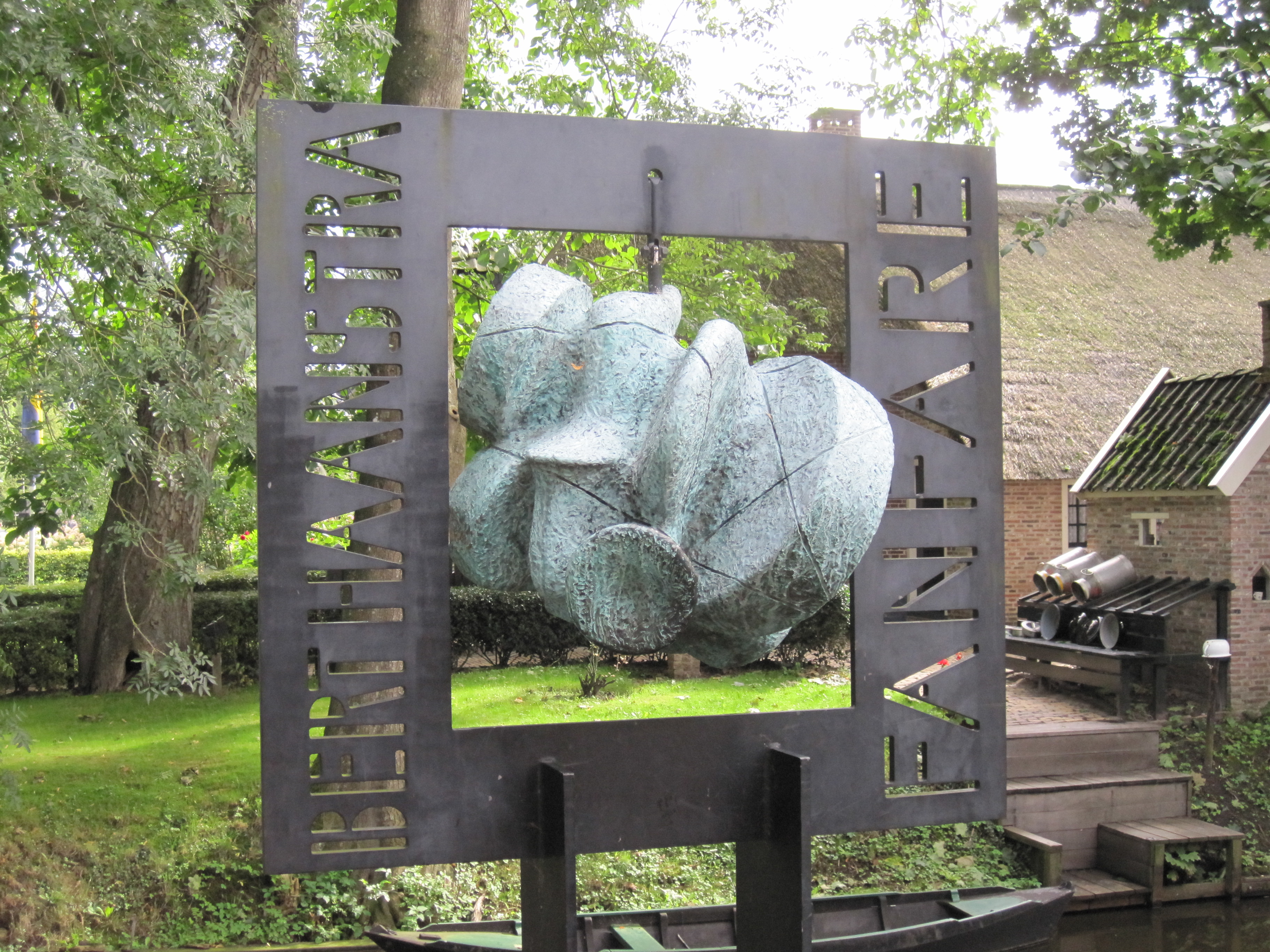 Bert Haanstra fanfare sculpture by Pepe Gregoire, Giethoorn, the Netherlands